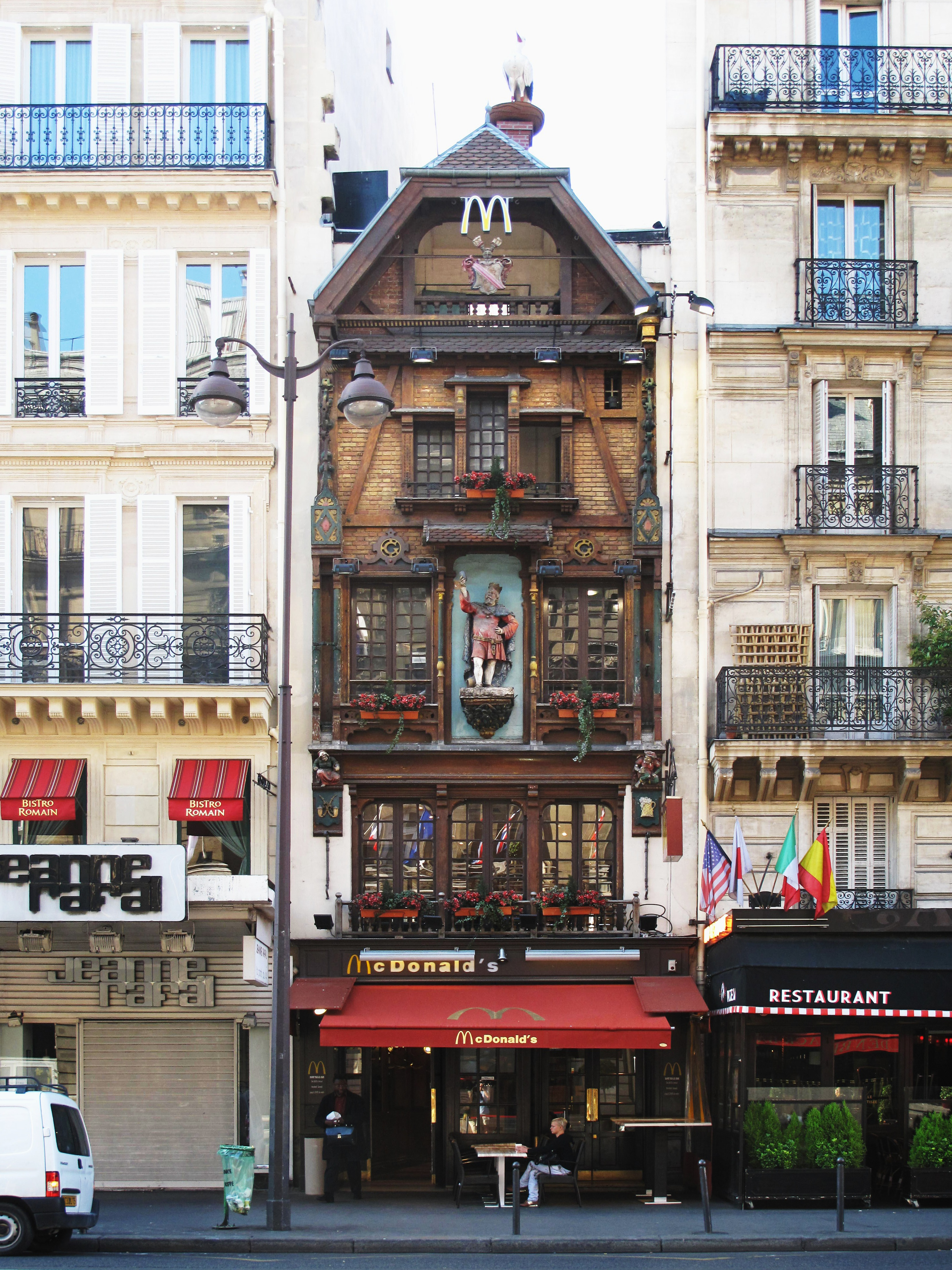 Former restaurant "Le roi de la biere" (=beer king), now a fast food. Rue Saint-Lazare, Paris, France.